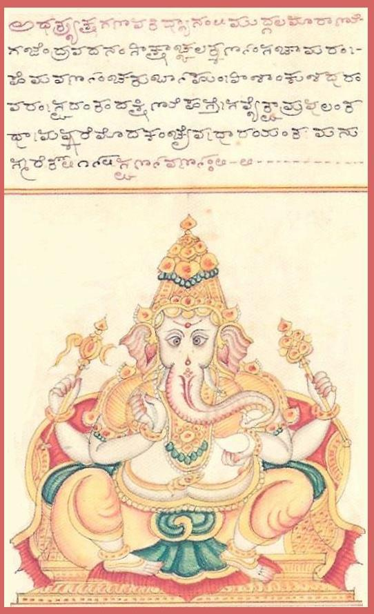 Reproduction from the Śrītattvanidhi ("The Illustrious Treasure of Realities"), an iconographic treatise compiled in the 19th century in Karnataka, India, by order of the then Maharaja of Mysore, Krishnaraja Wodeyar III (b. 1794 - d. 1868).